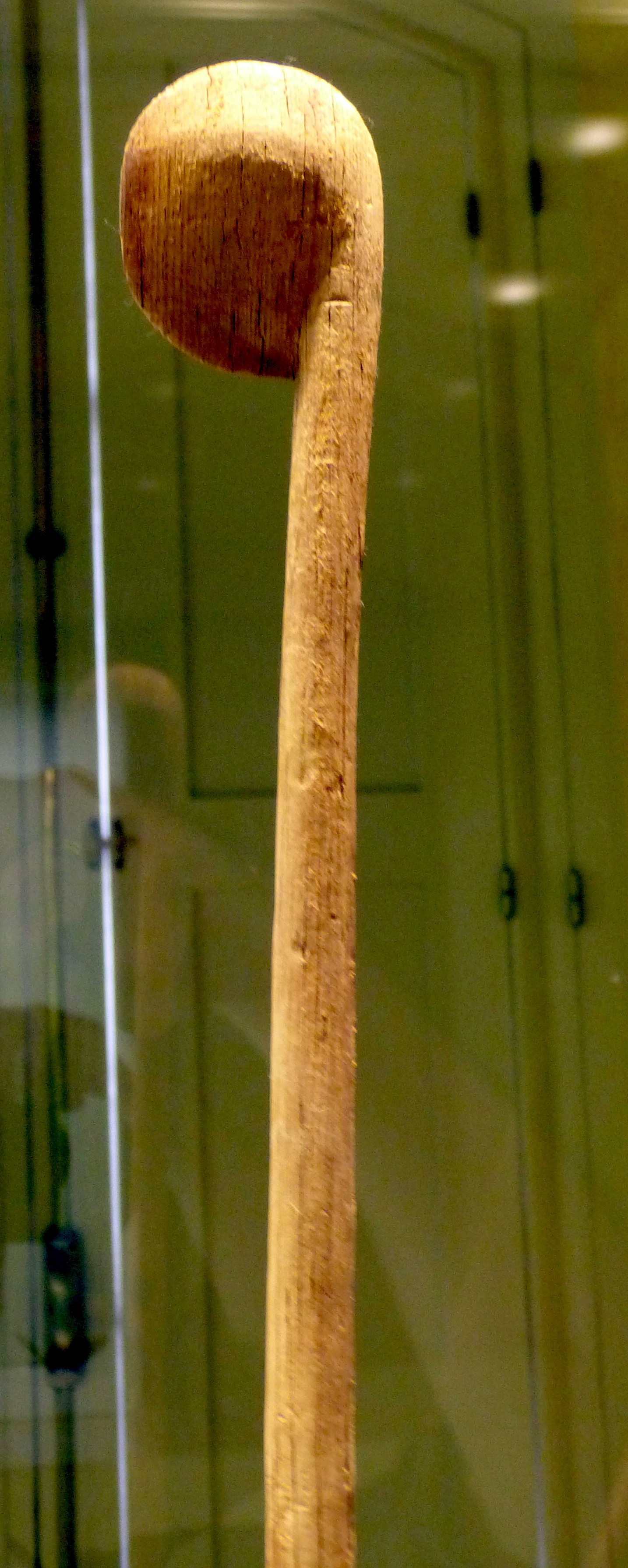 Santa Cruz de Tenerife ( Spain ). Museo de la Naturaleza y el Hombre - Guanche collections: Baton of a mencey ( Guanche chieftain ).